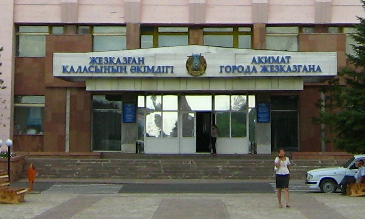 The akimat of Zhezkazgan city (Kazakhstan)